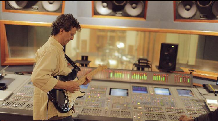 Junior during a recording in Monterrey, Mexico